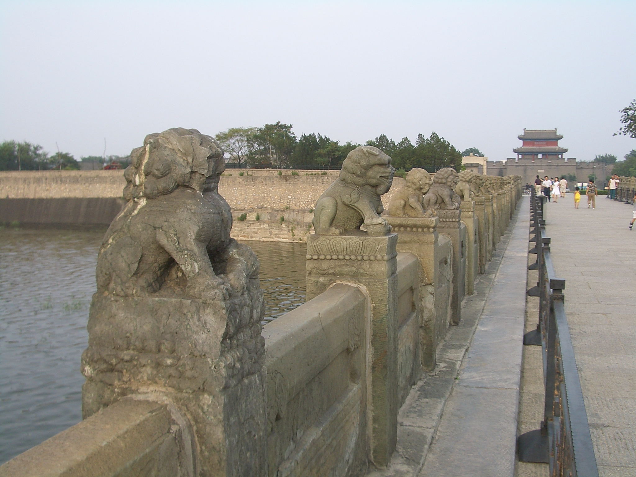 A few of the innumerable stone lions on the Lugou Bridge. Yongding River, flowing under the bridge (some of the time, anyway) in the background.